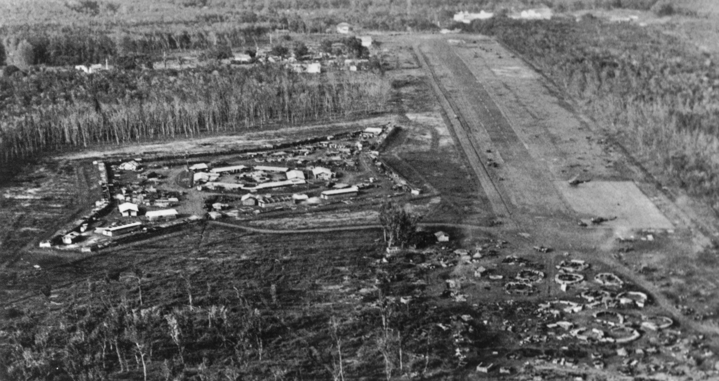 CIDG compound and Loc Ninh Airstrip with A Battery, 6th Battalion, 15th Artillery, position in the foreground.